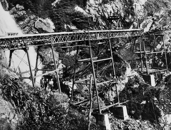 Building Stoney Creek Bridge for the Cairns to Kuranda Railway.